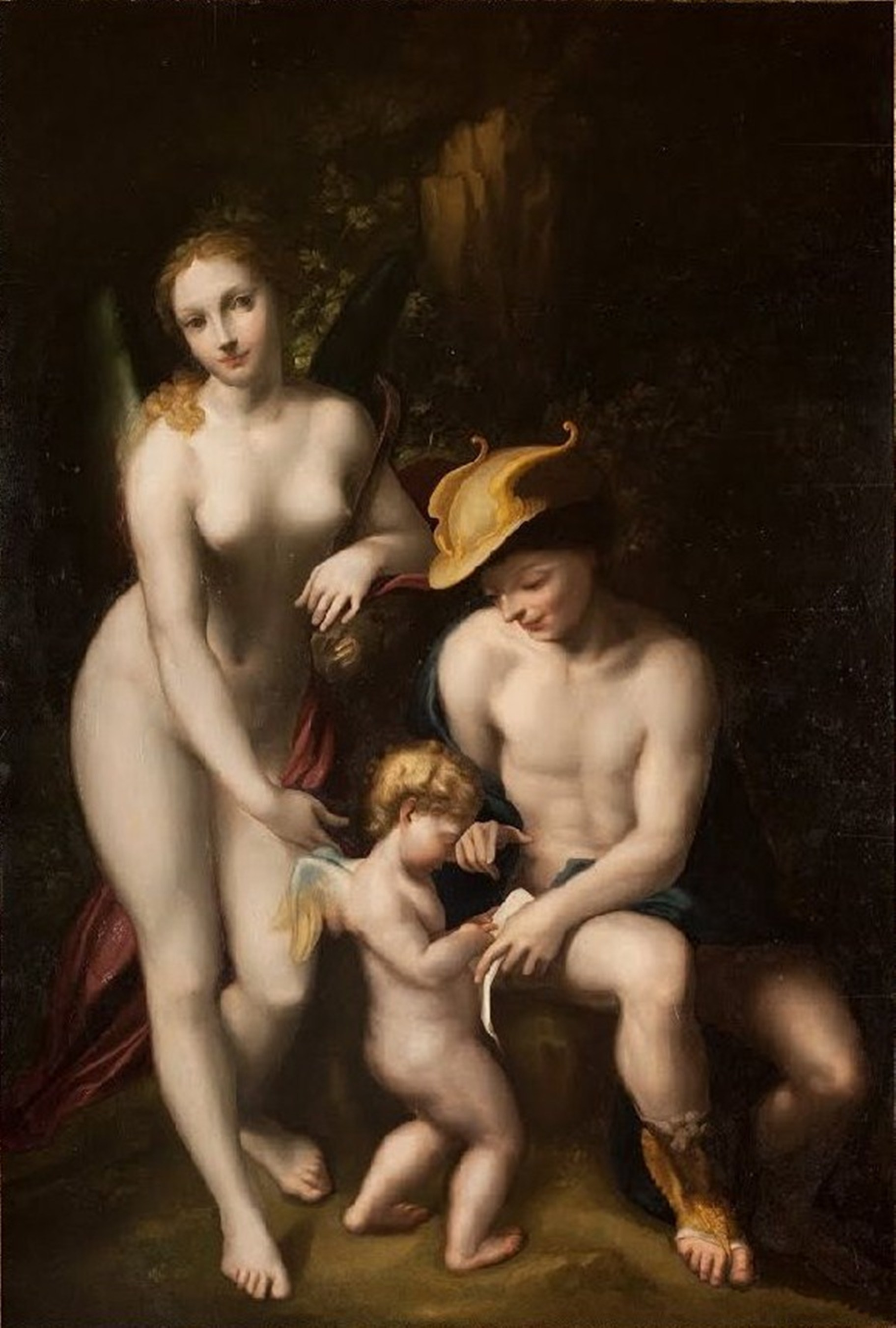 Four or five copies of The School of Love are listed. One version belongs to the collections of Chenonceau Castle, another is exhibited at the National Gallery in London in Britain, and another at the Brukenthal National Museum in Sibiu, Romania.